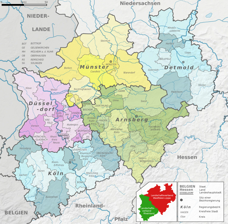 Political-physical map of North Rhine-Westphalia, Germany.